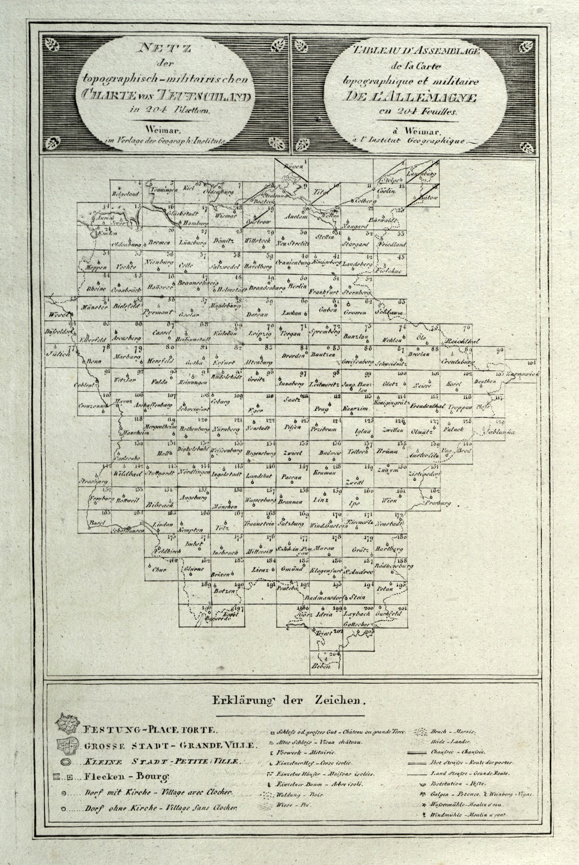 Topographisch-militairische Charte von Teutschland